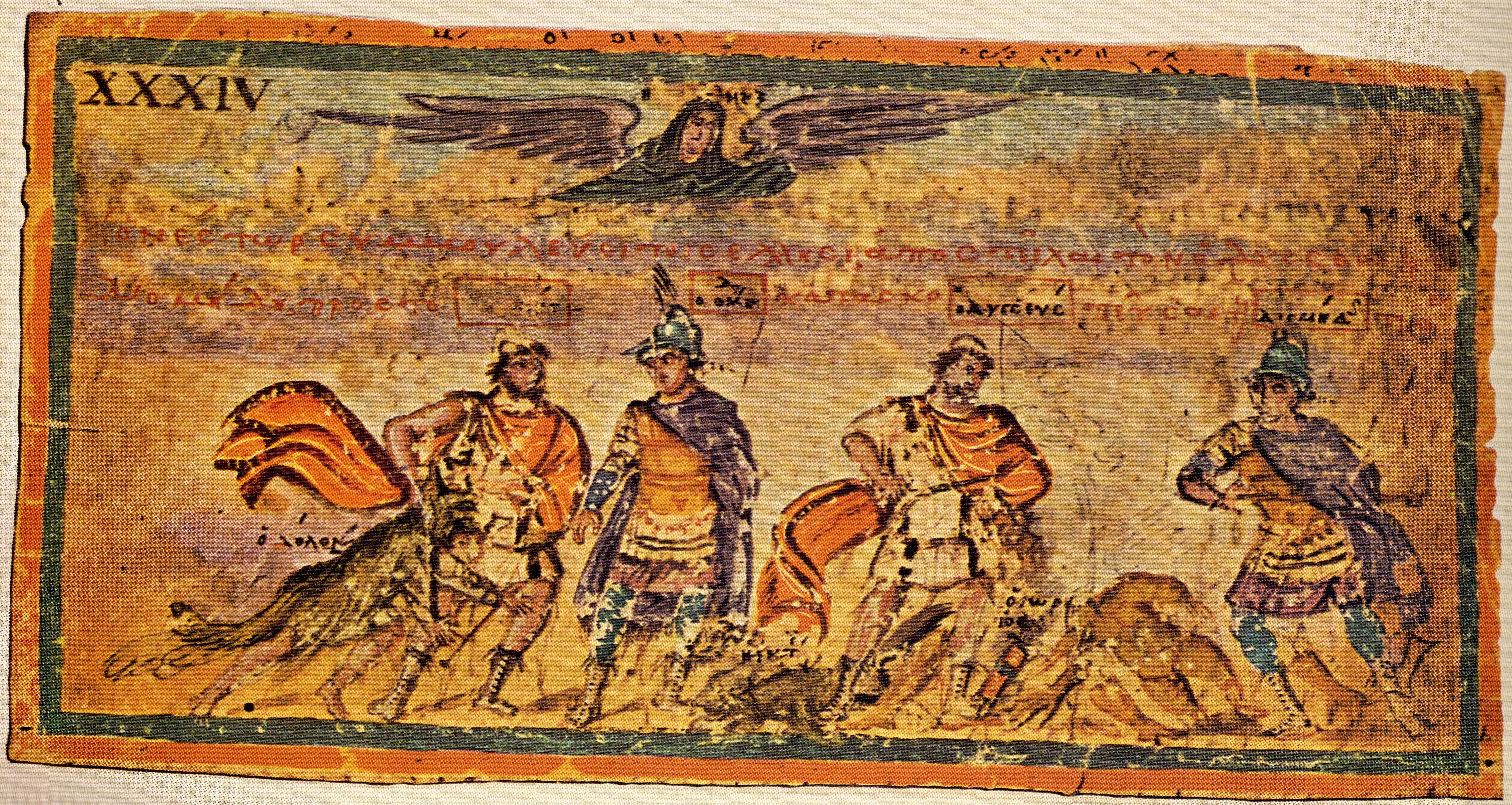 Picture XXXIV from the Ambrosian Iliad, The Capture of Dolon. Scanned from Late Antique and Early Christian Book Illumination by Kurt Weitzmann.